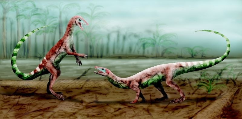 Malerisaurus robinsonae, a protorosaur from the Late Triassic of India. Digital.